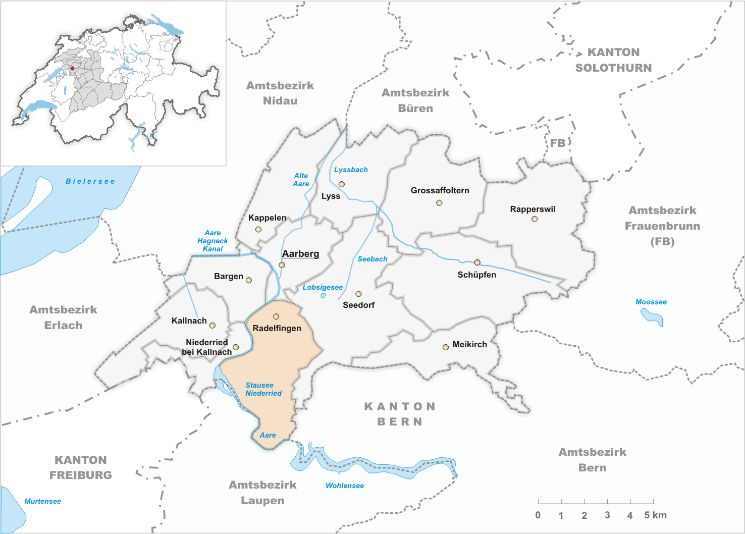 Municipality Radelfingen